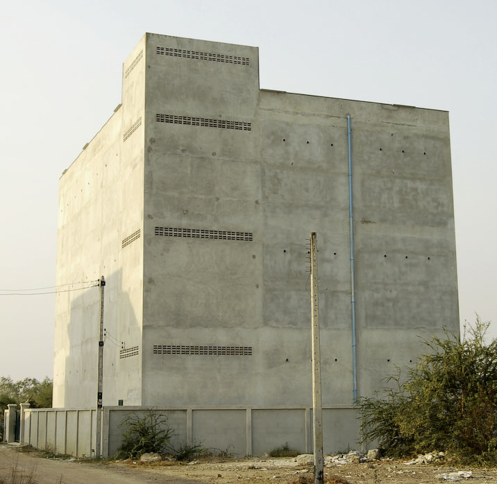 A typical nesting house for swiftlets in Baan Laem, Phetchaburi province, Thailand.